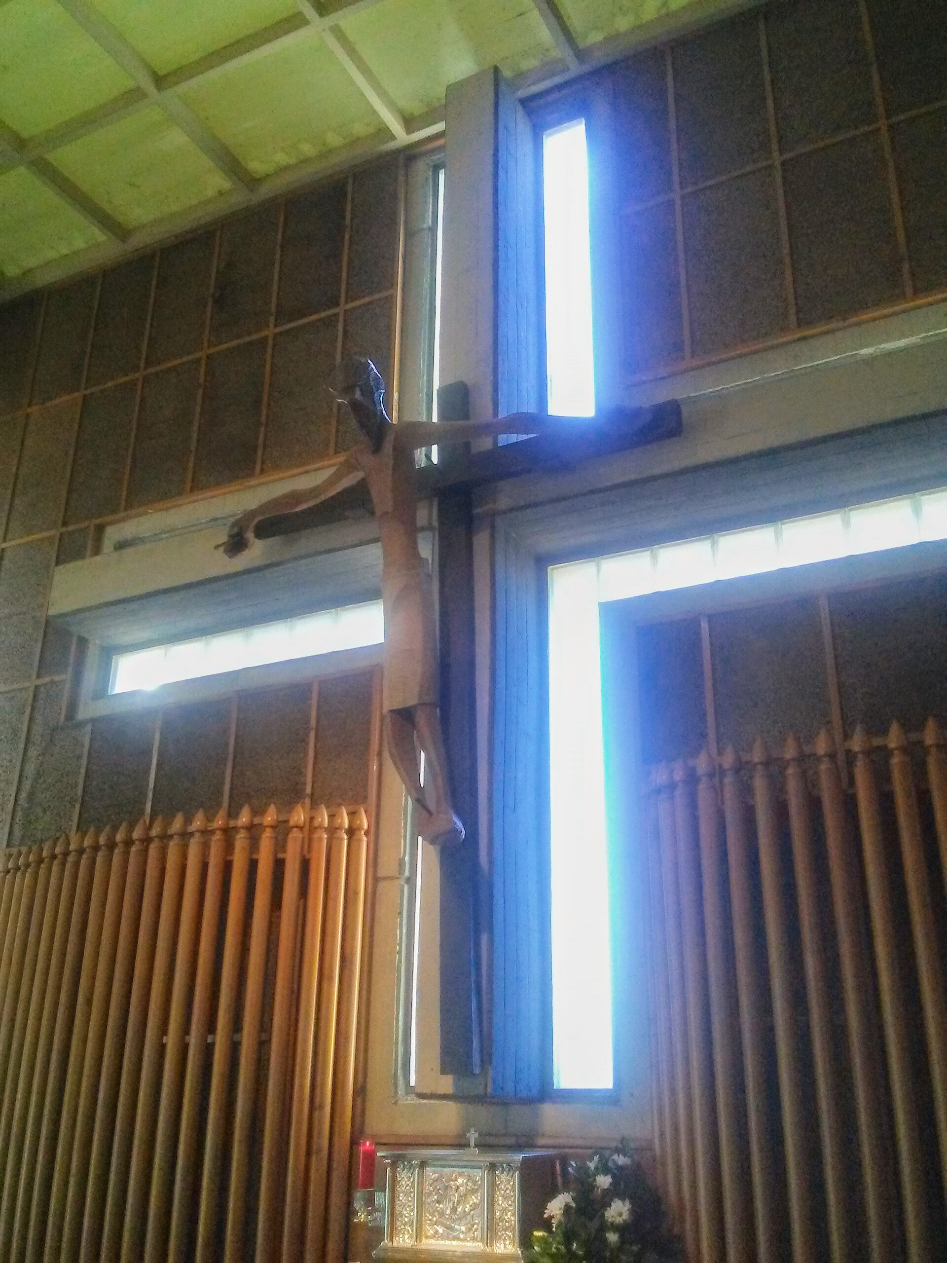 Altar (Parroquia de Cristo Rey, Ourense)